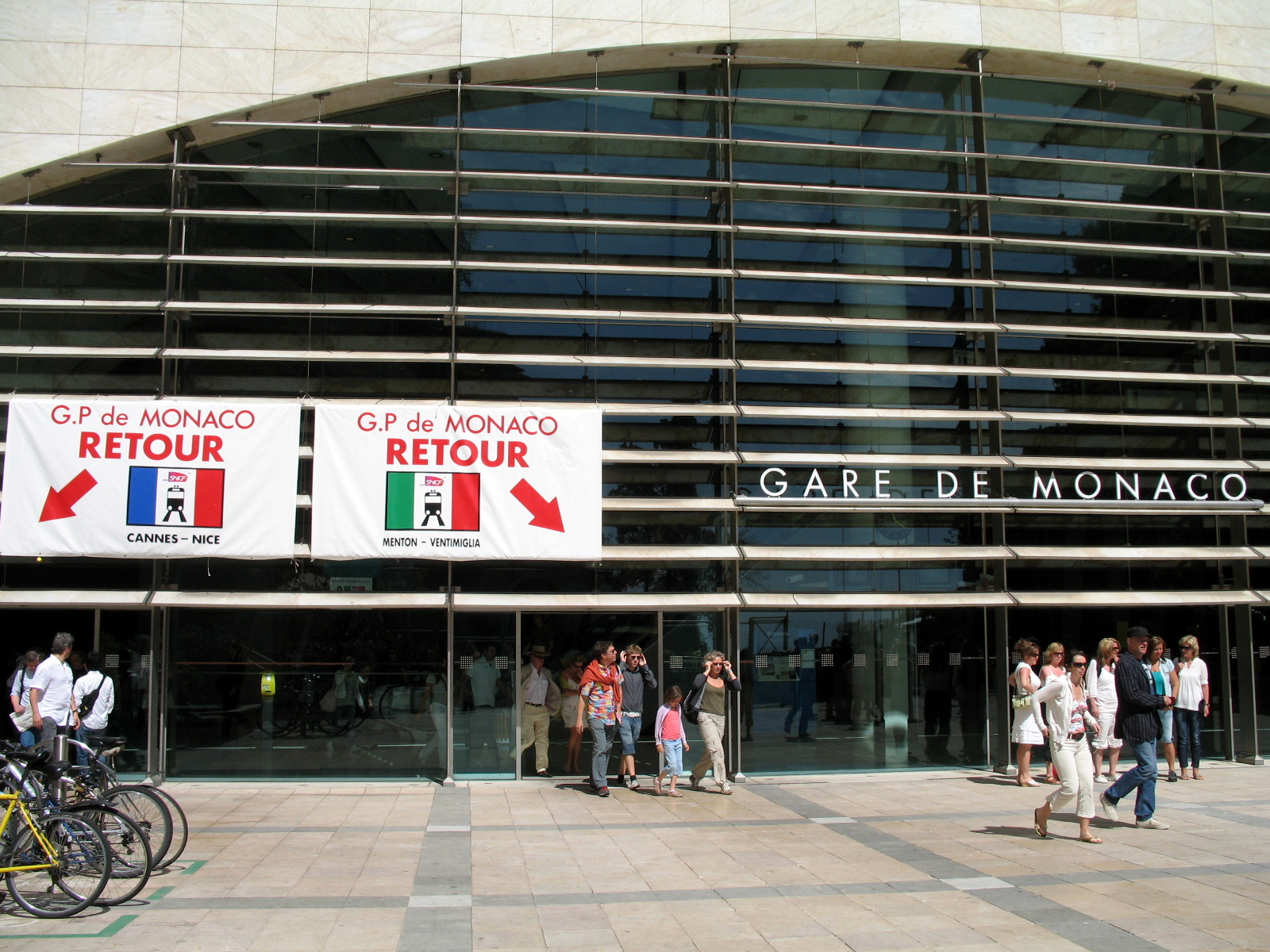 Entrance of the railway station of Monaco.